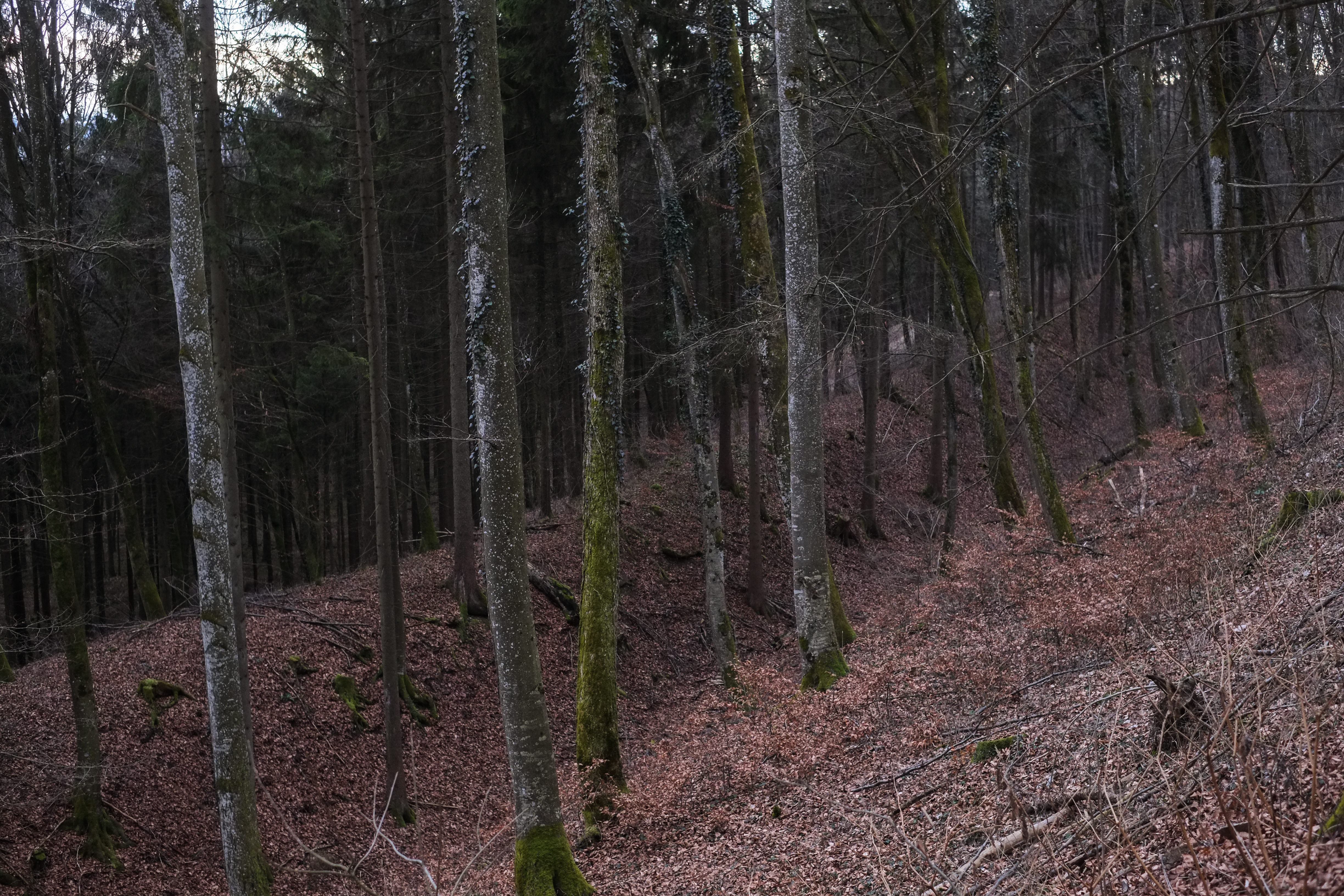 Hillfort Alte Burg, Langenenslingen, district Biberach, Baden-Württemberg, Germany